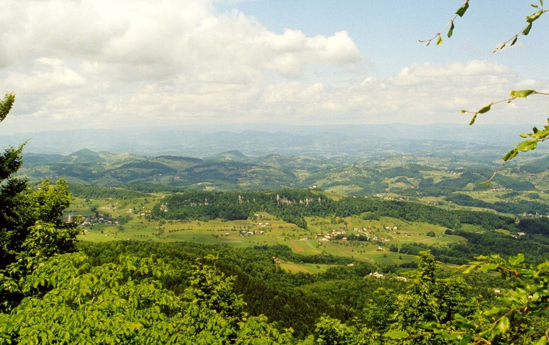 Kozjansko region, Podpeč pri Šentvidu